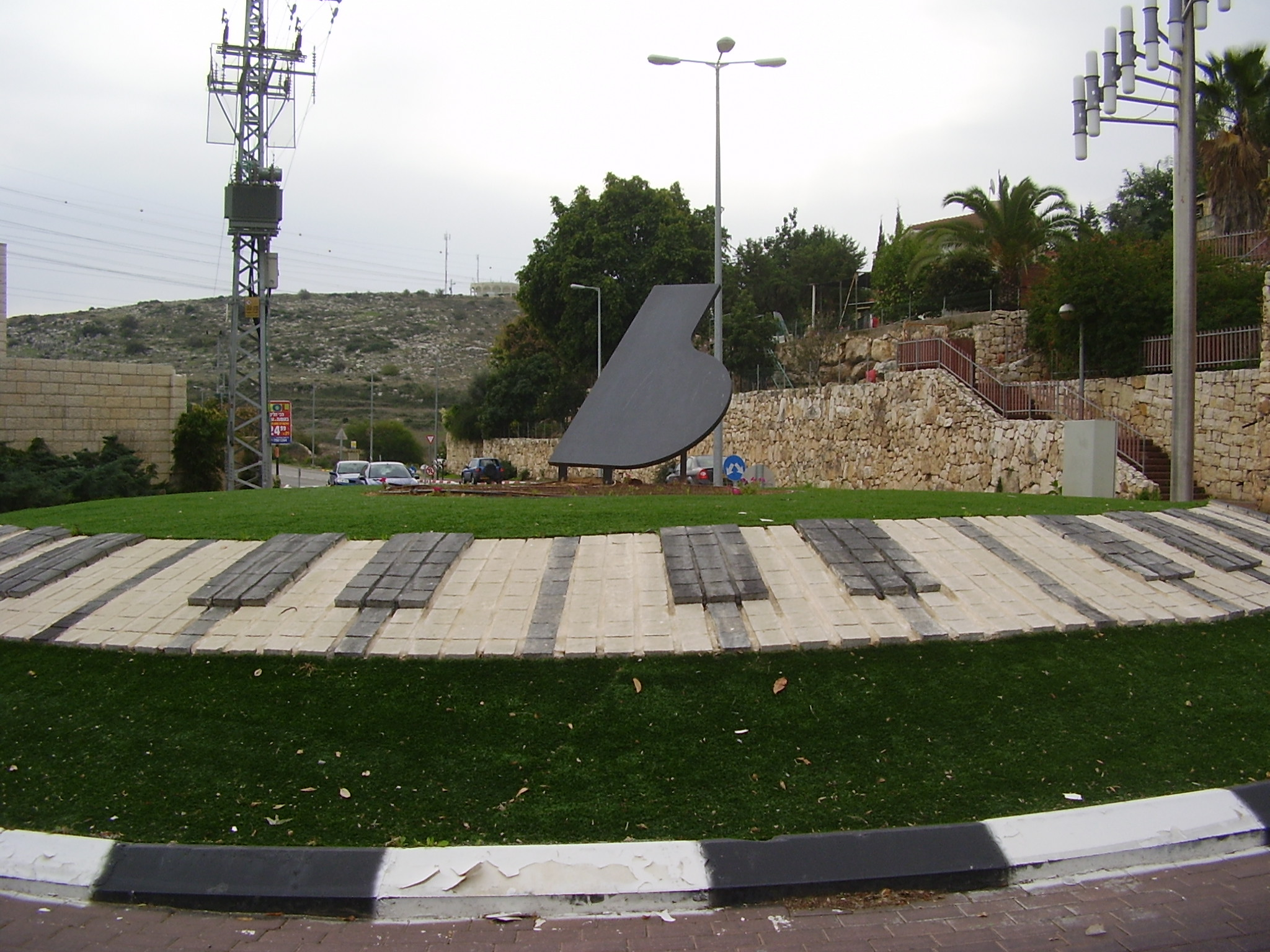 Rosh Ha'ayin music town - Piano